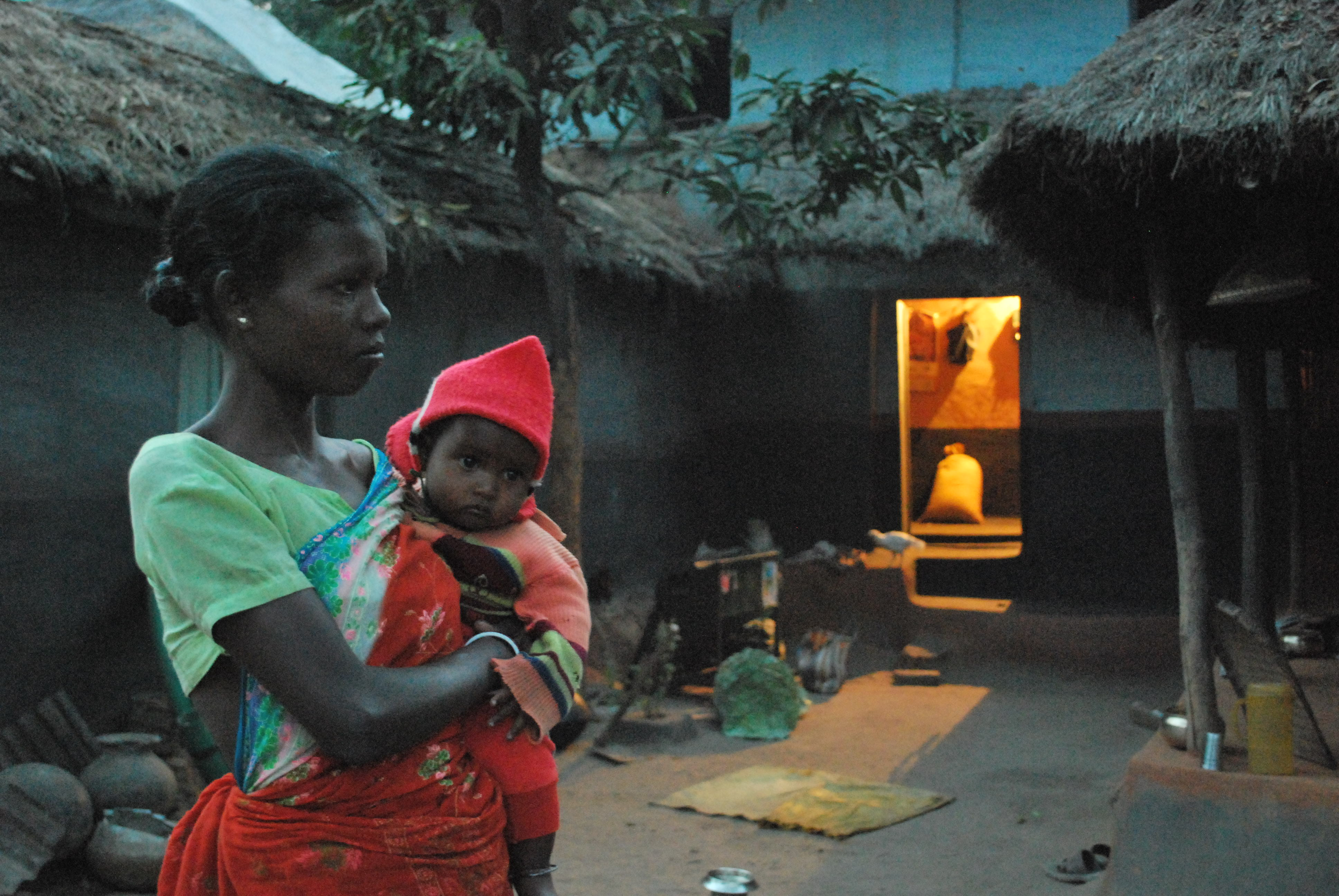 As the darkness fell upon the obscure tribal village, the mother picked up her child to get into the house that had a bright lamp. We stood awestruck, absorbing the beauty of the simple rustic moment, trying to steal away some part of it forever frozen in time.